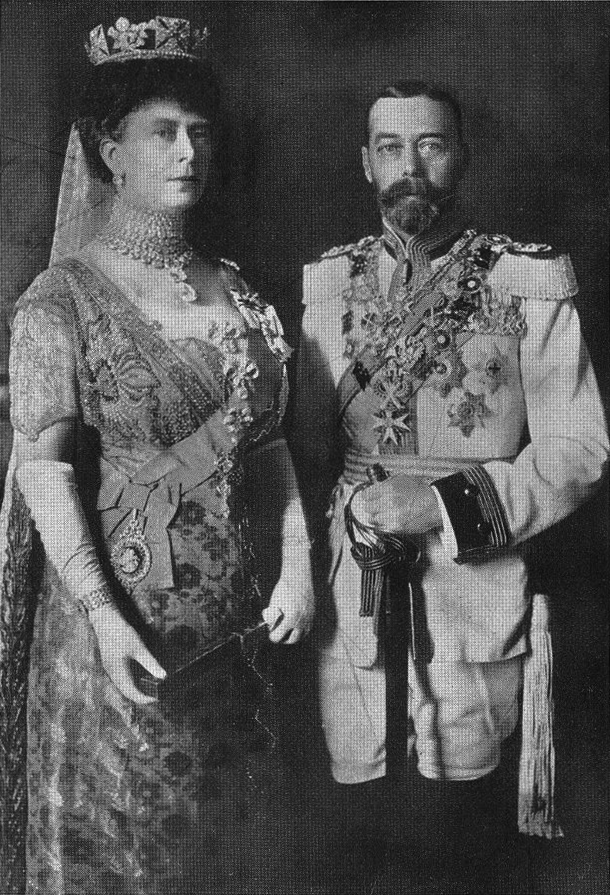 Formal portrait of Great Britain's Queen Mary and King George V before World War I.